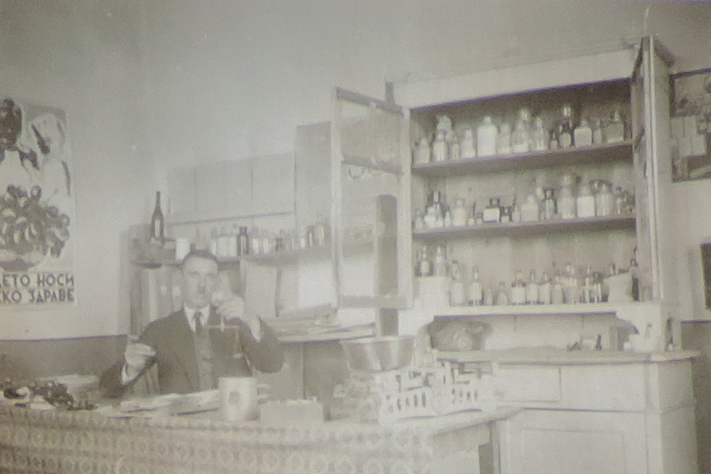 A photo album by doctors, paramedics and midwives at the Kyustendil Sanitary region in 1936. It was compiled by Dr. A. Ogoyski. Handed to His Royal Highness Simeon Knyaz Tarnovski.